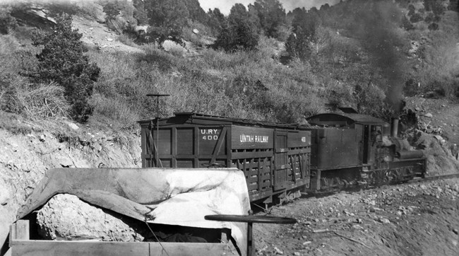 Uintah Railway primarily haule Gilsonite but here dinosaur bones peak-out from under a tarp enroute to Mack, CO for shipment to the Carnegie Museum